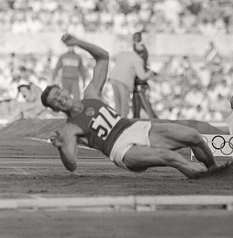 The Sovietic Atlete Vitold Kreyer knock down on the sand at the end of his own triple jump exhibition, facing judges in line; the Russian athlete will finish competitions with the third jump longer, obtained the bronze medal. Rome